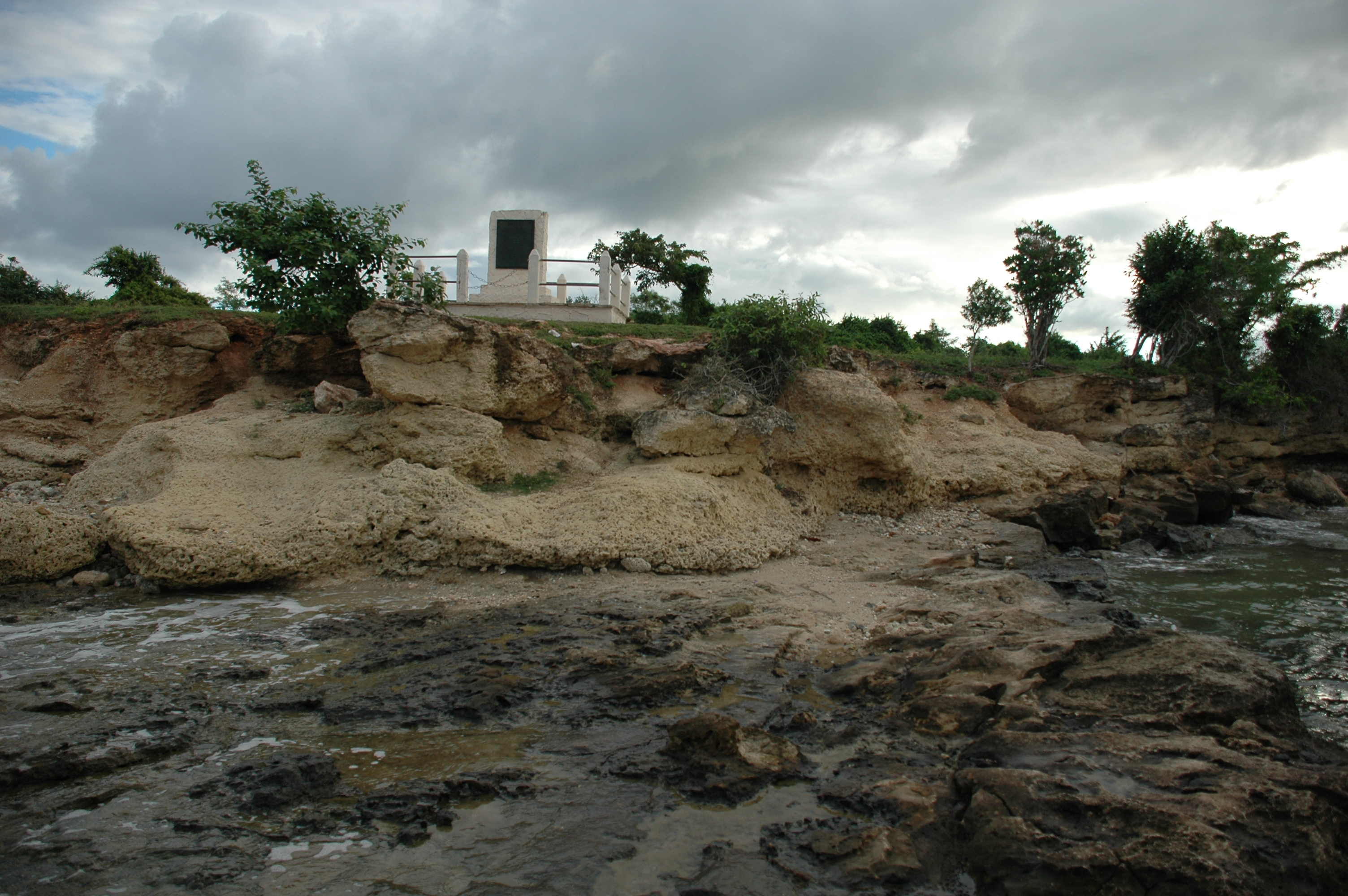 Obelisco de Colon